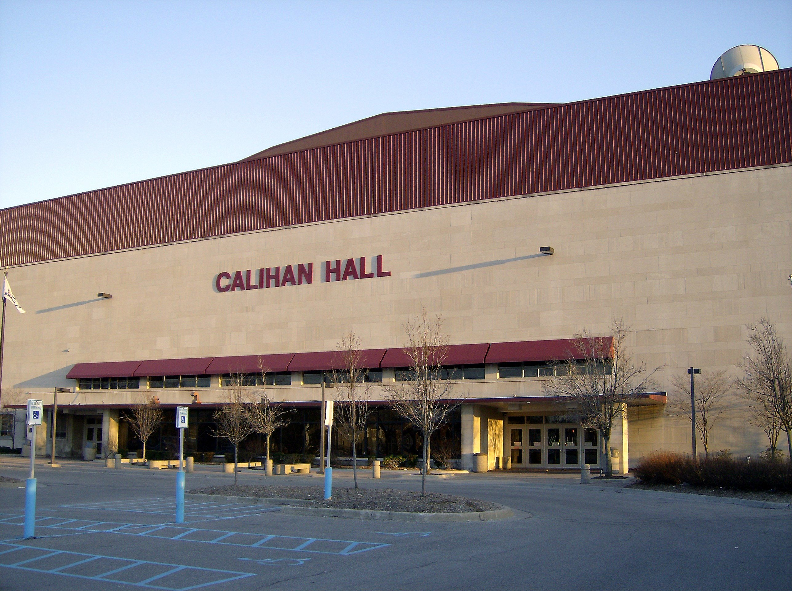 Calihan Hall on U of Detroit campus Category:Images of Detroit, Michigan